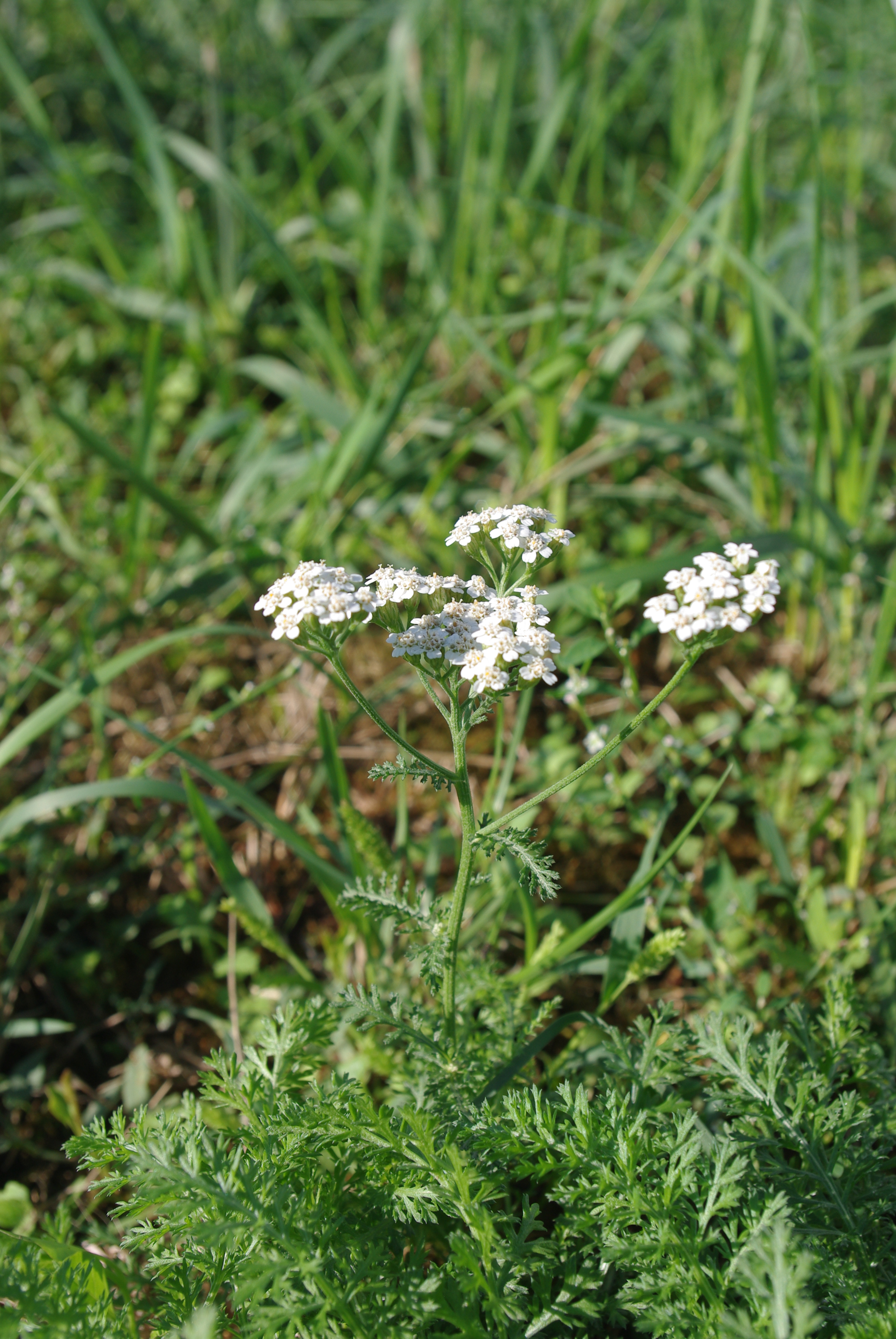 Achillea millefolium - Common yarrow - inflorescence